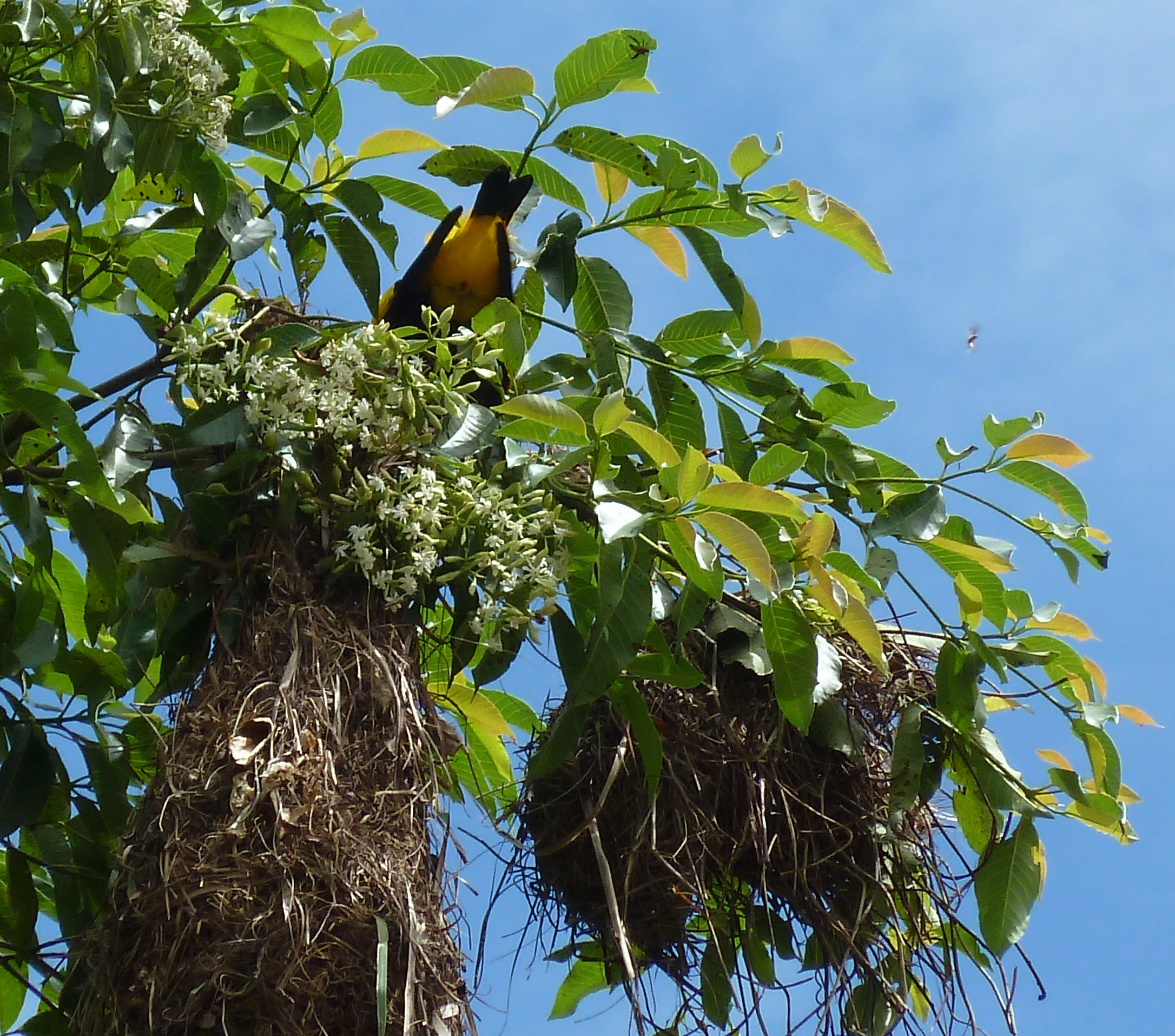 Cacicus cela (Yellow-rumped Cacique), Amazon Rainforest, near Nauta, Peru, 2011